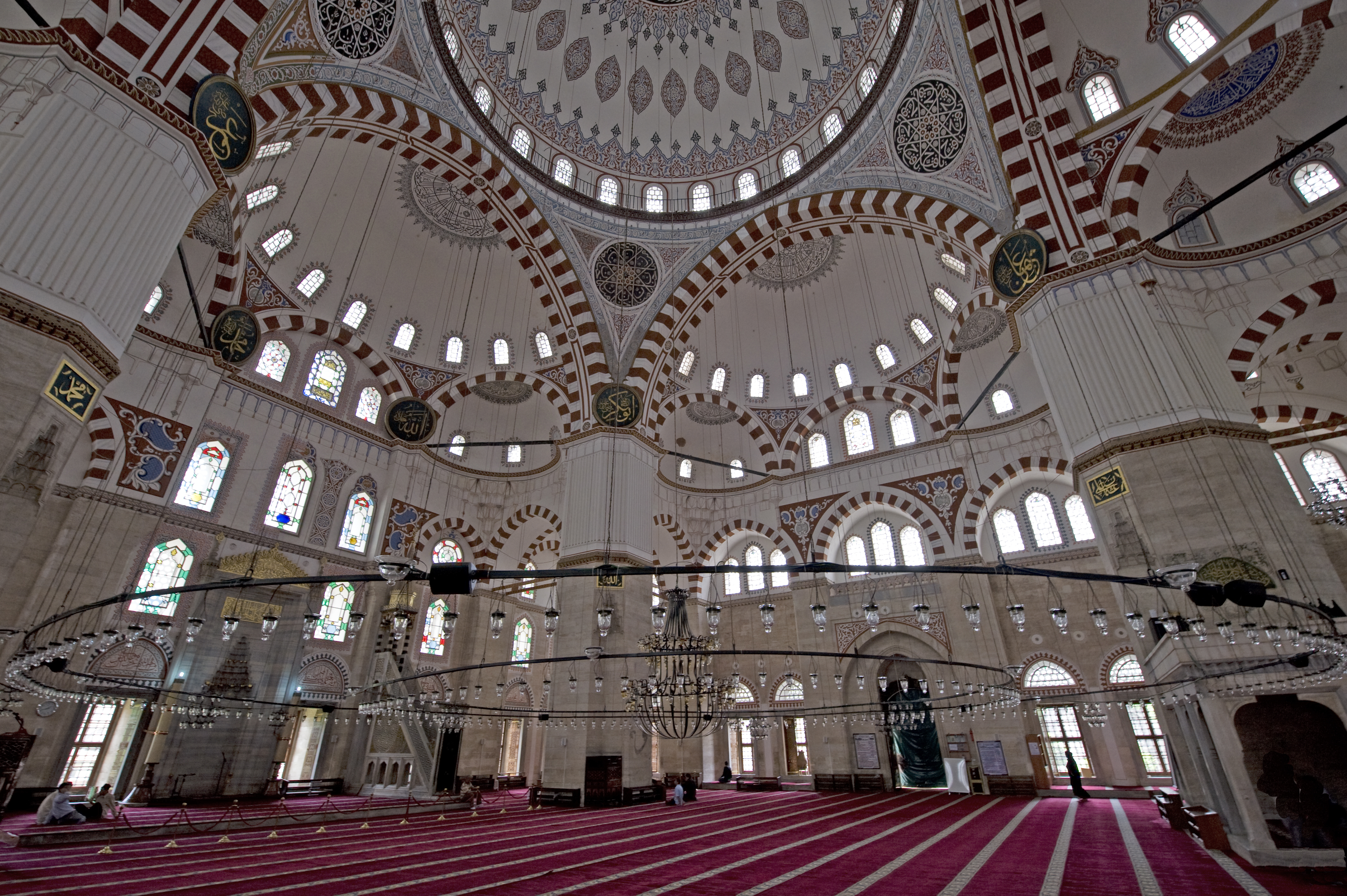 In the left hand corner the mihrab, then the minber, in the right hand corner we see part of the müezzin mahfili (raised platform for chanters).